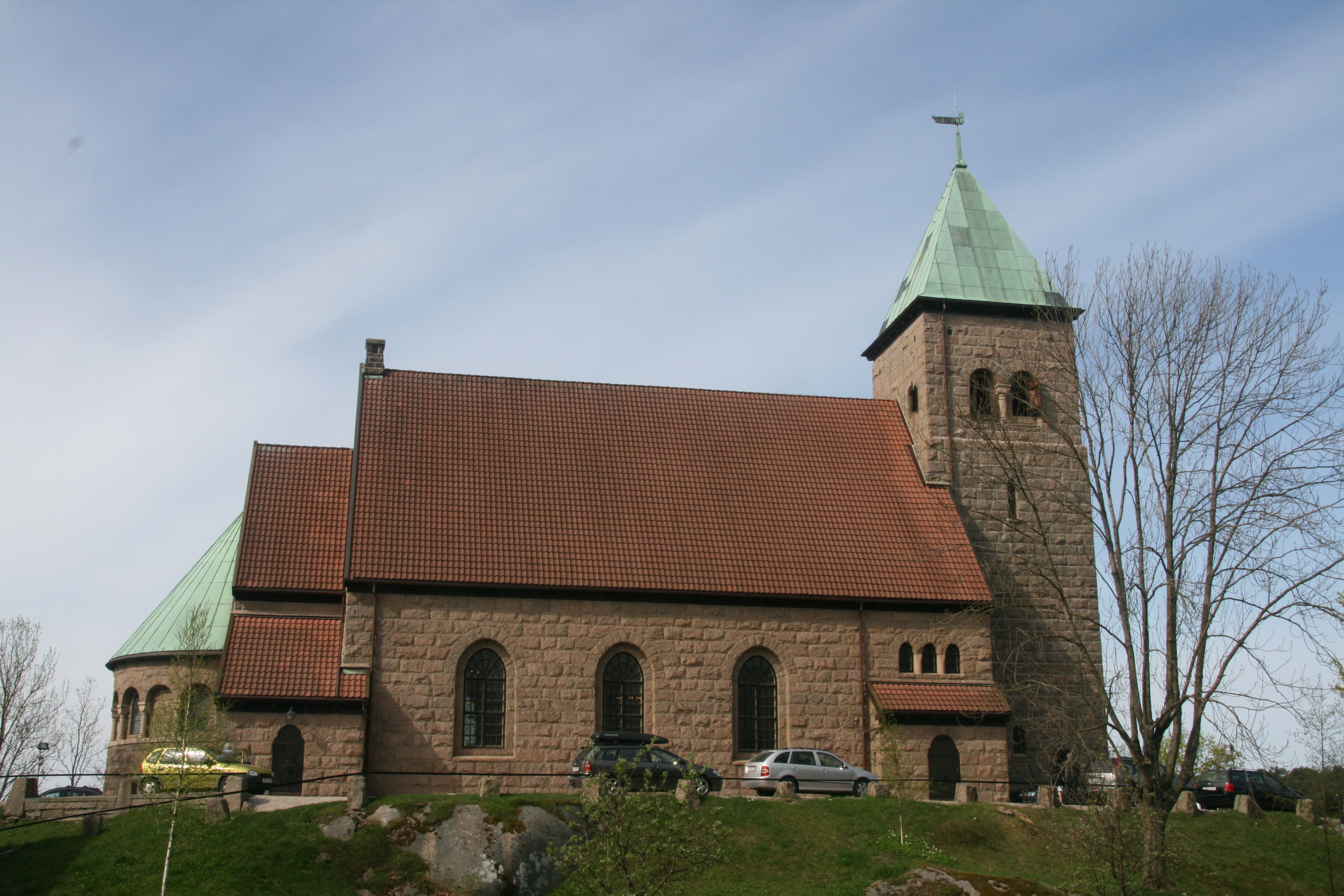 Kråkerøy church in Fredrikstad, Østfold